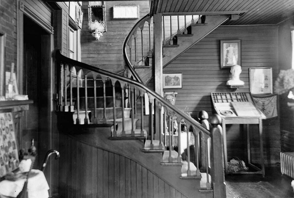 Main foyer and staircase of "Rehoboth" — residence in Chappaqua, New York.